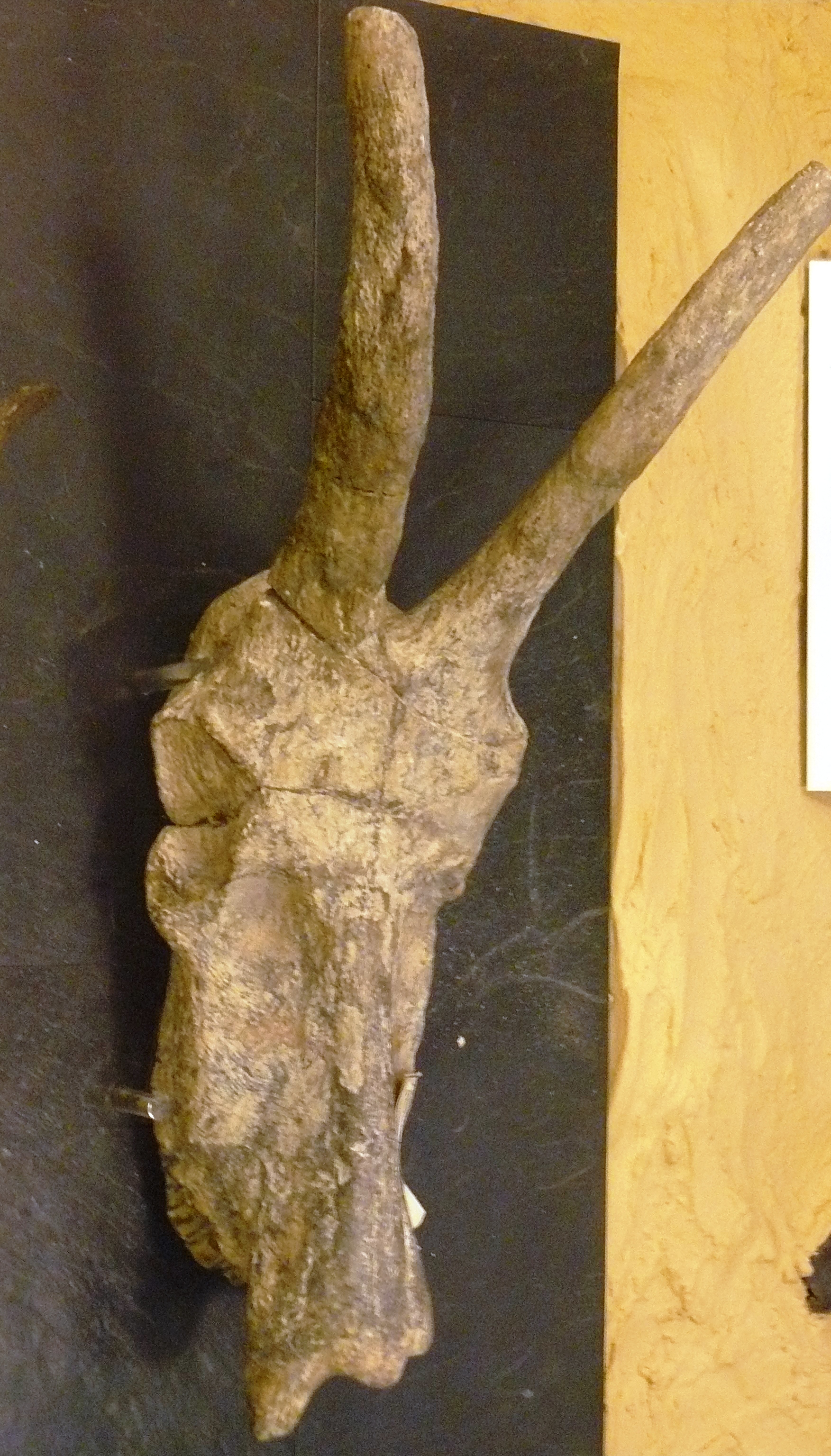 Skull of Damalops palaeindicus from the upper Siwaliks (Pleistocene age), India. Museum of Natural History, London, UK.